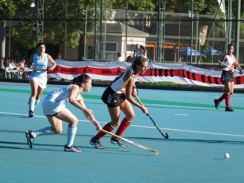 Field Hockey match in 2011. River Plate vs Ciudad.